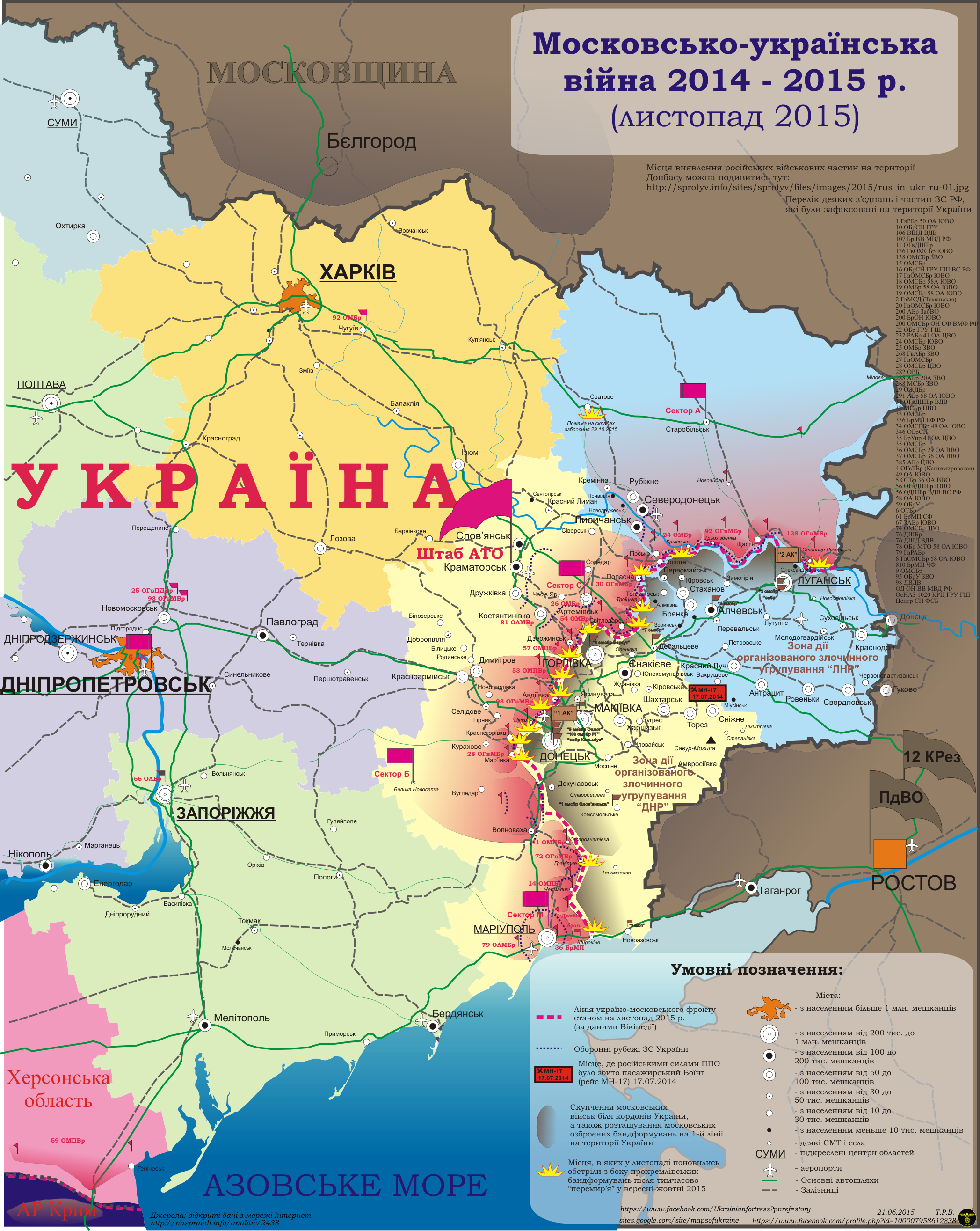 Moscow-Ukrainian war, the situation in November 2015